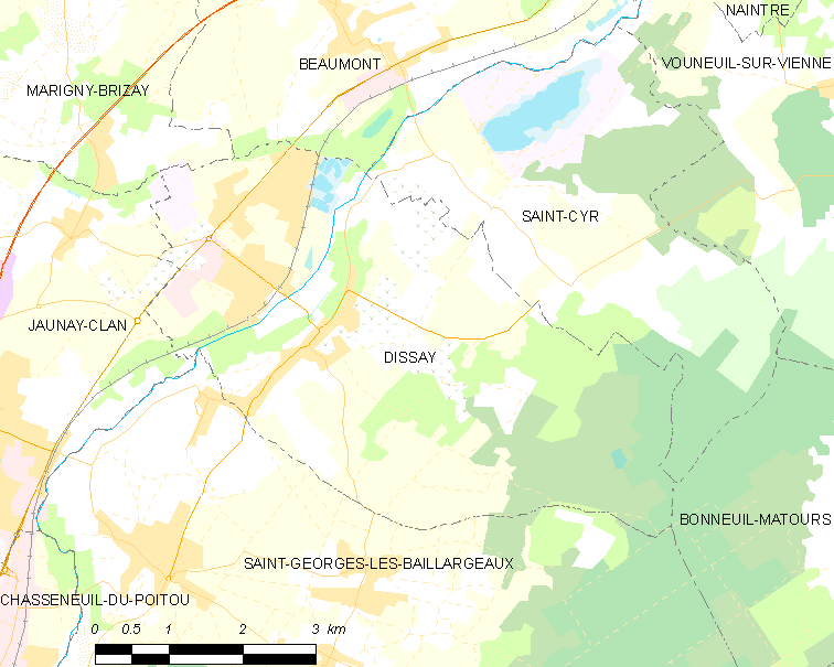 Map of French municipality Dissay